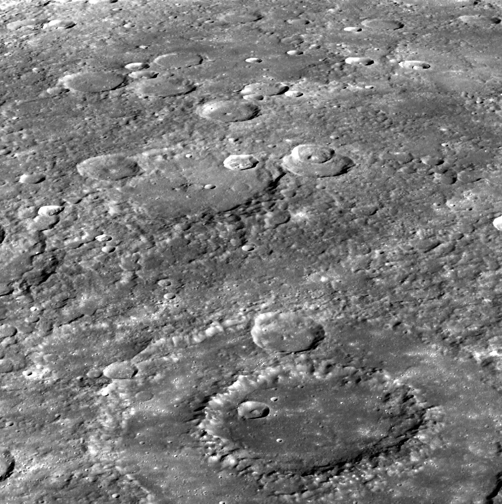 Date acquired: November 16, 2013 Image Mission Elapsed Time (MET): 26946160 Image ID: 5209643 Instrument: Wide Angle Camera (WAC) of the Mercury Dual Imaging System (MDIS) WAC filter: 7 (748 nanometers) Center Latitude: 20.68° Center Longitude: 244.9° E Resolution: 236 meters/pixel Scale: Dürer basin is approximately 195 km (121 mi.) in diameter. Incidence Angle: 67.1° Emission Angle: 62.9° Phase Angle: 30.0° Of Interest: This image, taken at a high emission angle, helps the eye to see the three-dimensional nature of the scene. Dürer, a peak-ring basin, can be seen in the foreground. Dürer's peak ring is dotted with hollows. North is to the left in this image. This image was acquired as part of MDIS's high-incidence-angle base map. The high-incidence-angle base map complements the surface morphology base map of MESSENGER's primary mission that was acquired under generally more moderate incidence angles. High incidence angles, achieved when the Sun is near the horizon, result in long shadows that accentuate the small-scale topography of geologic features. The high-incidence-angle base map was acquired with an average resolution of 200 meters/pixel.